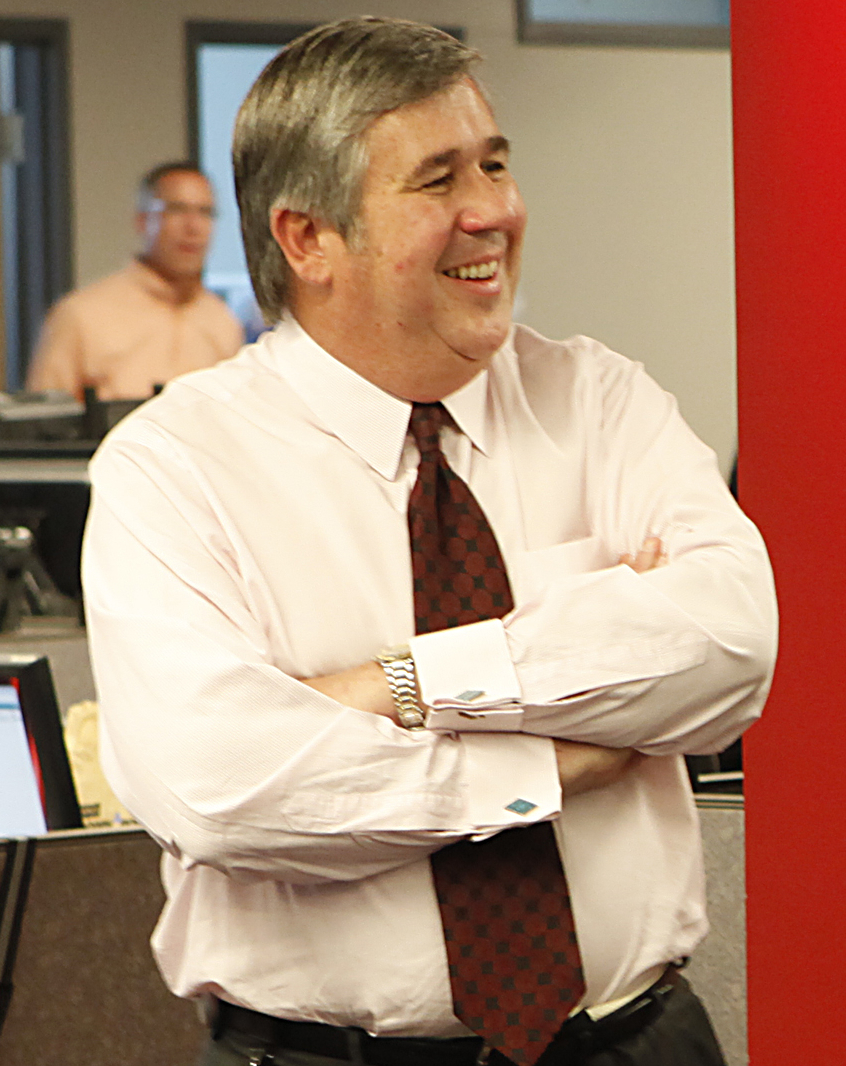 ESPN anchor Bob Ley in 2010. This file has been extracted from another file: Bob Ley with member of army.jpg